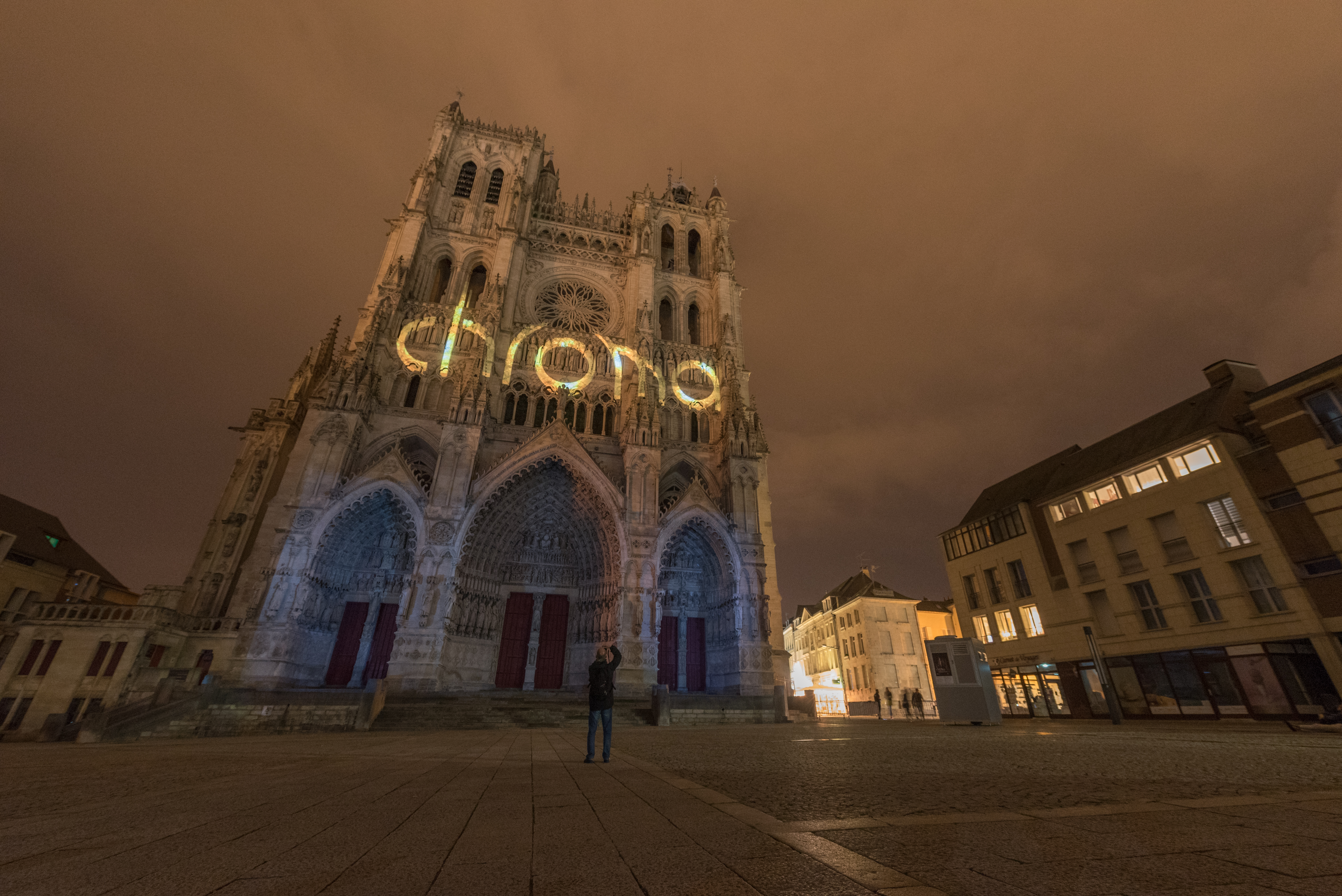 Light show 'Chroma' on the Notre-Dame of Amiens